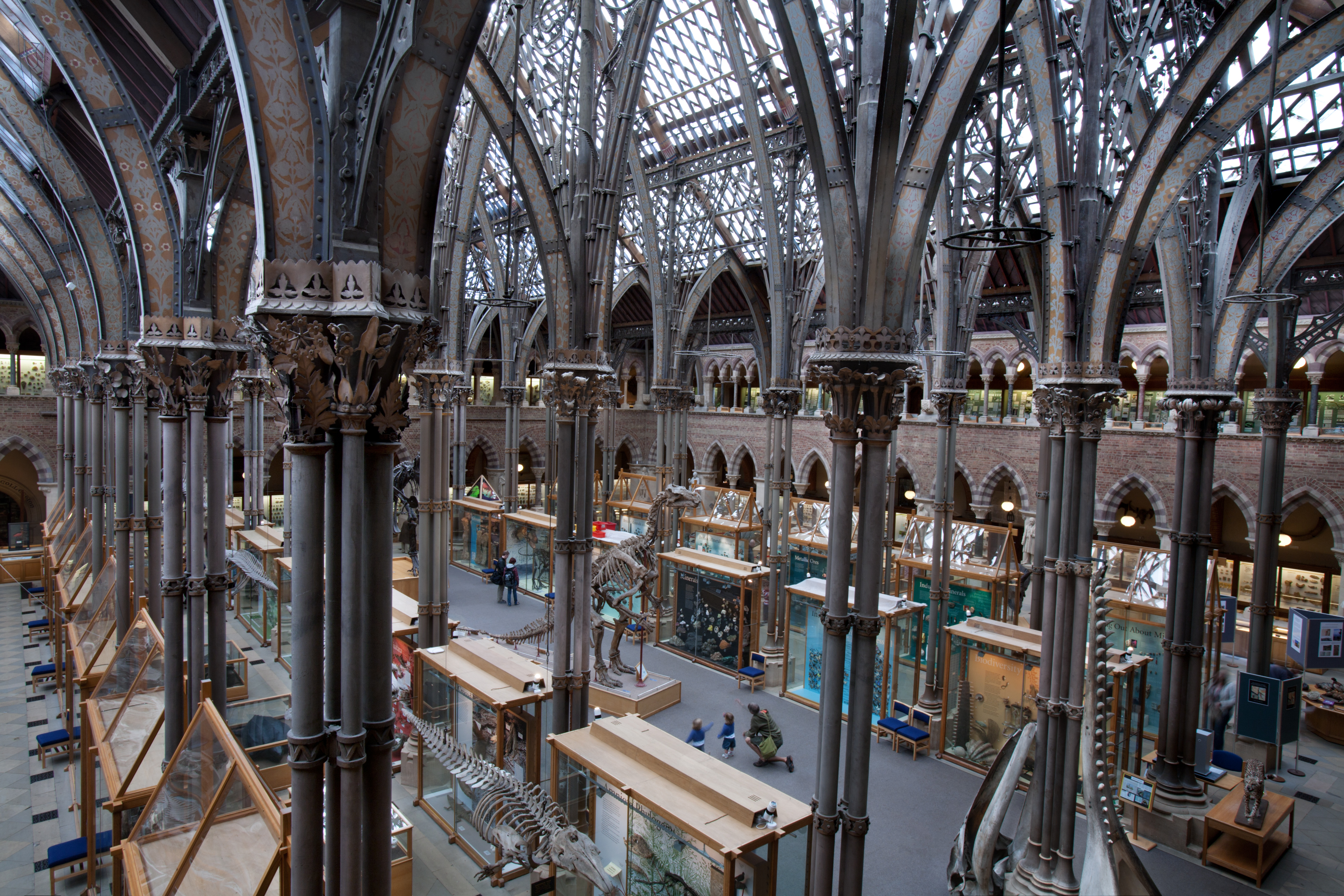 Oxford University Museum of Natural History, Oxford, UK